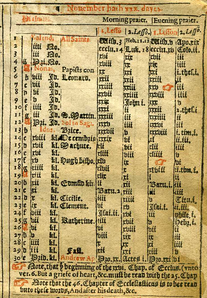 Church Calendar for the month of November, from a Book of Common Prayer dated 1614.